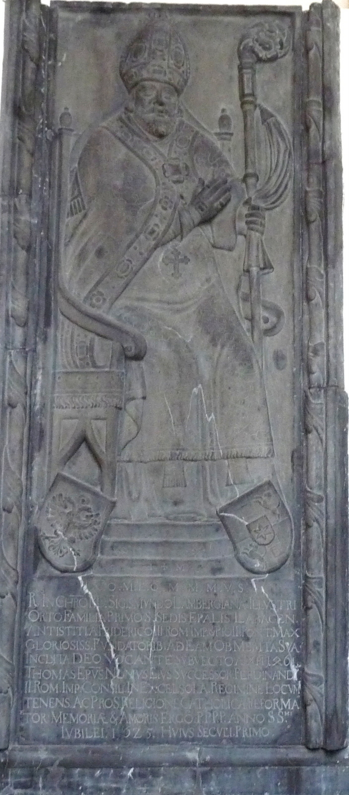 Žiga Lamberg, 1. ljubljanski škof, Gornji Grad